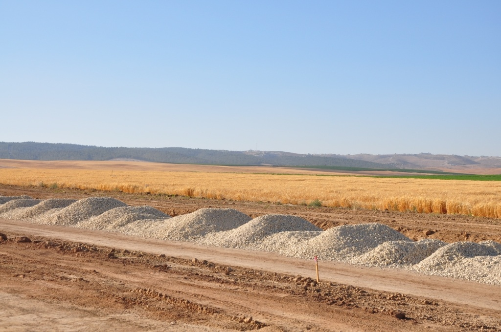 Recent Carmit pic